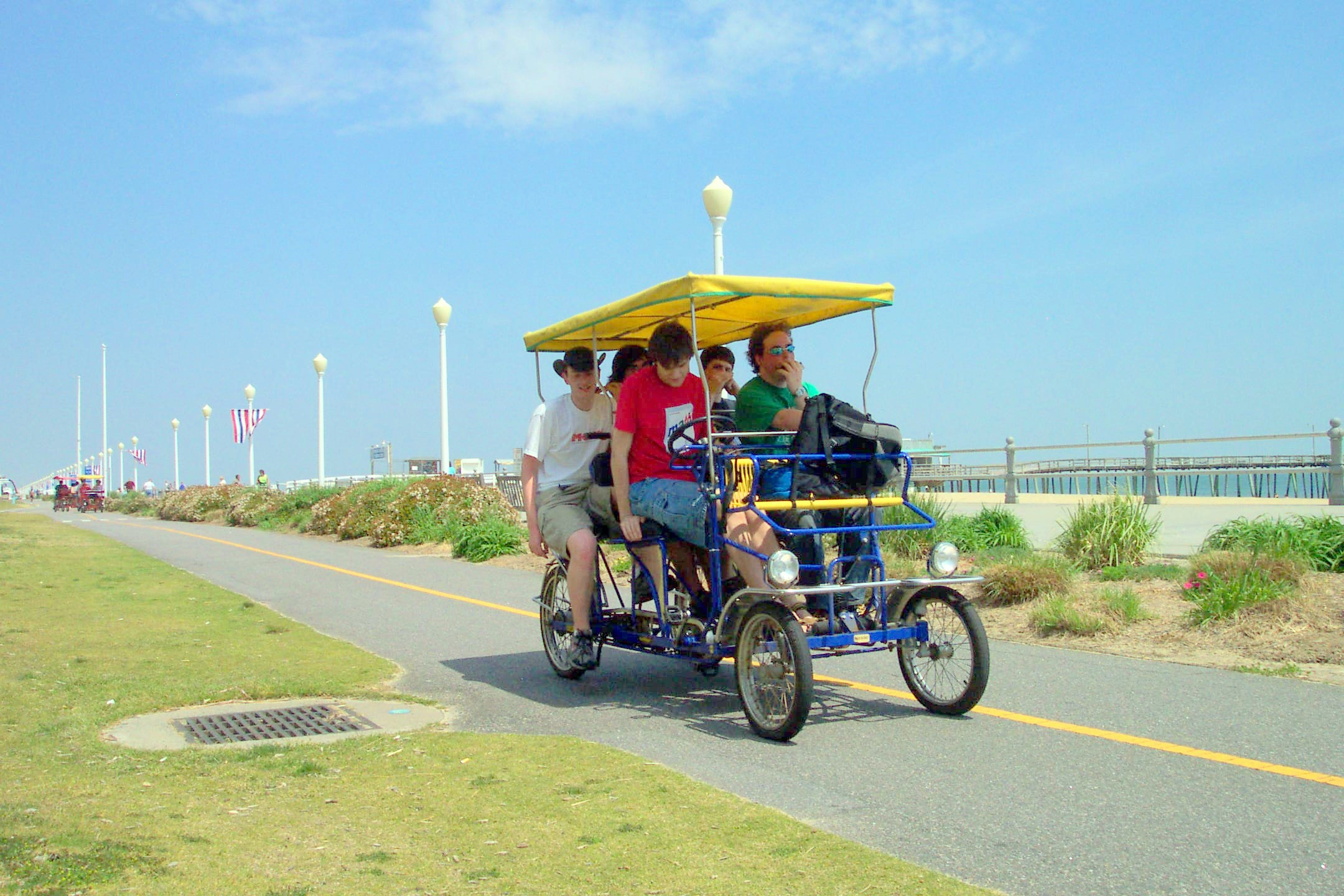 Picture of rental bike (surrey) available along Virginia beach, Virginia, United States.